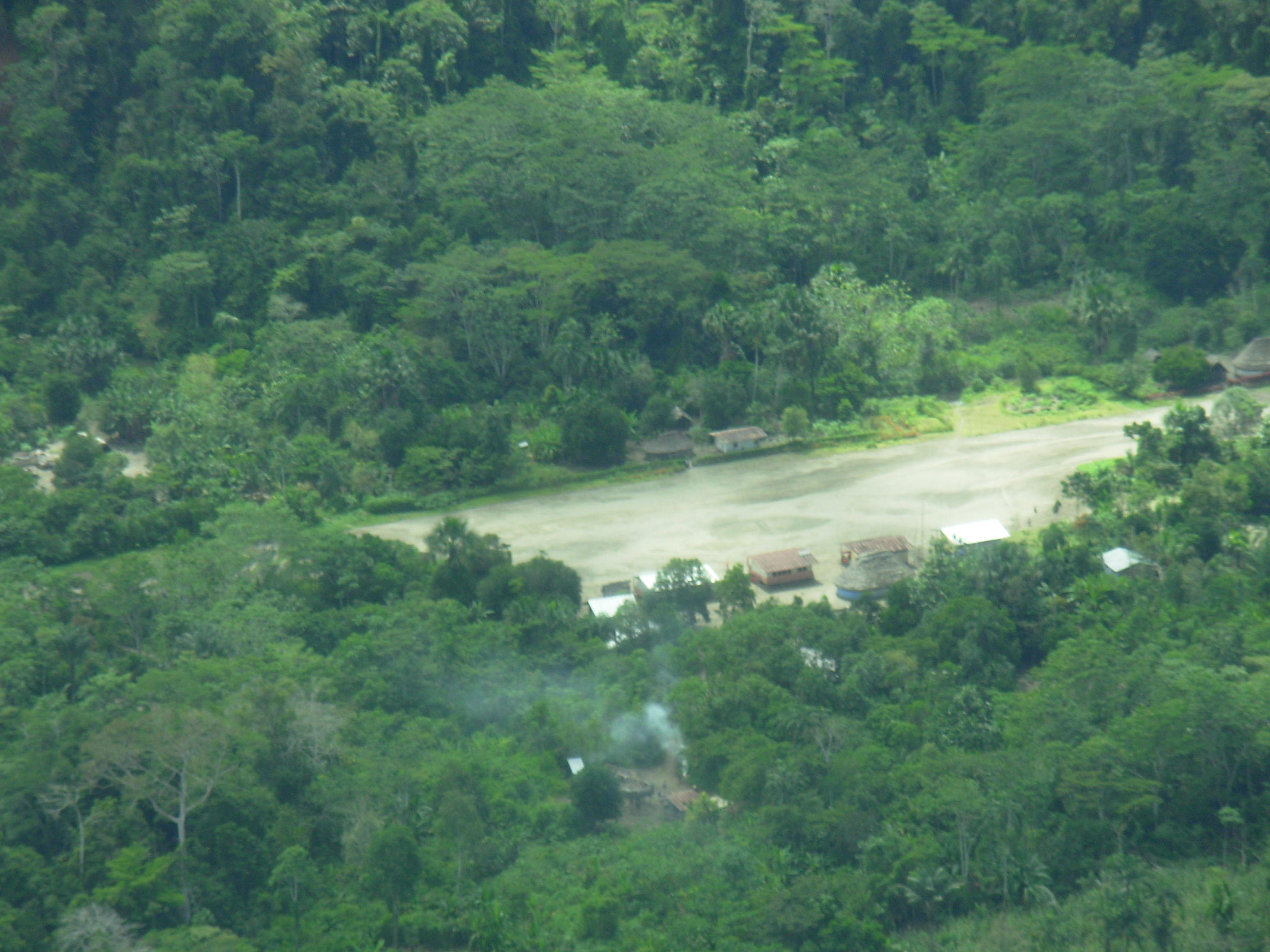 Mashient, an Achuar village, in the Ecuadorian province of Pastaza